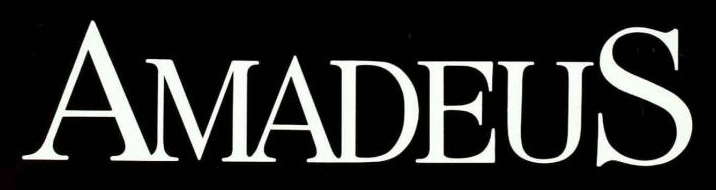 Logo of the film "Amadeus" (1984)